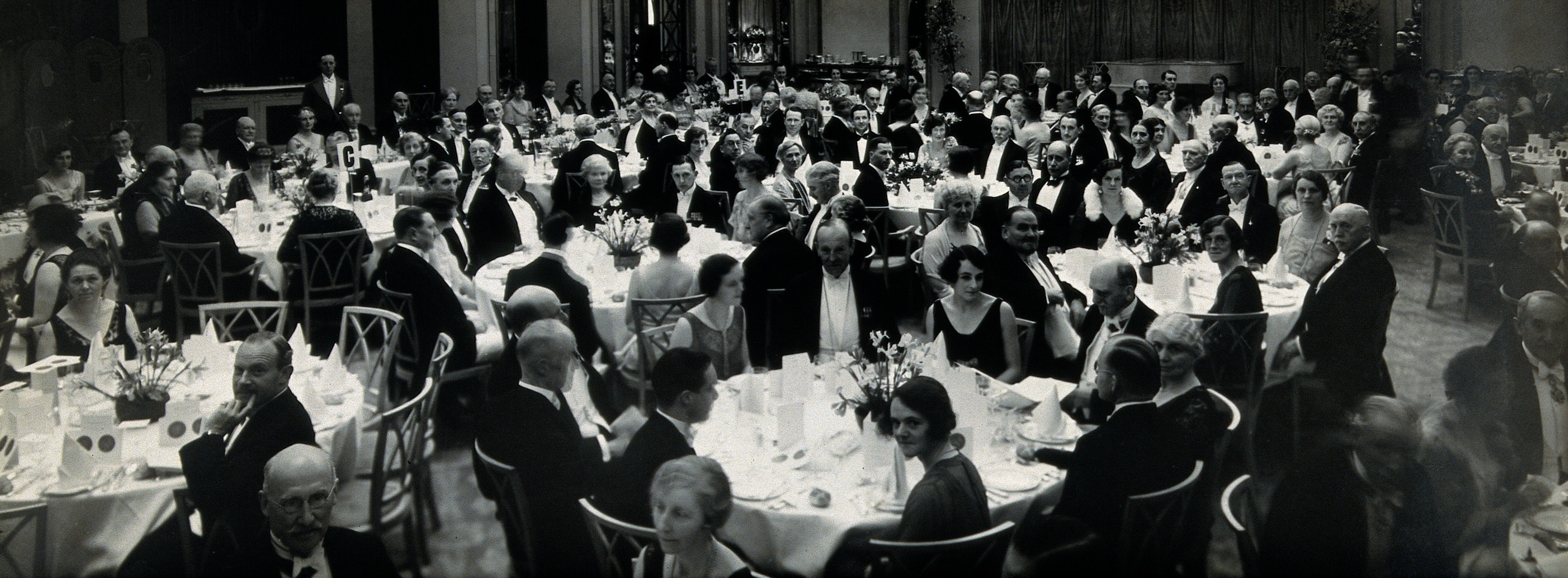 African Society dinner. Photograph by Swaine, 1931. Iconographic Collections Keywords: portrait photographs